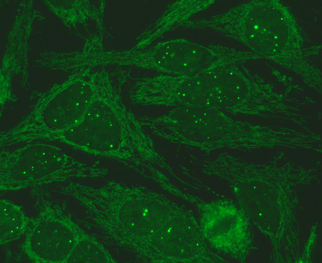 Immunofluorescence pattern of sp-100 antibodies (nuclear dots). Produced using serum from a patient on HEp-20-10 cells with a FITC conjugate.